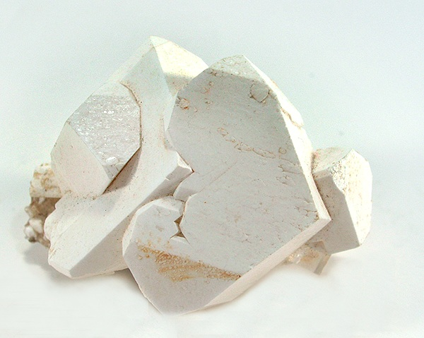 Halite, Picromerite Locality: Potash Mine, Roßleben, Querfurt, Saxony-Anhalt, Germany (Locality at ) Size: miniature, 5.7 x 4.5 x 3.6 cm Picromerite (Schonite) on Halite A sharply crystallized example of this rare sulfate species, formerly known as Schonite, from a classic locality long abandoned. Minor halite is associated underneath and around the backside. It is, overall, a very attractive miniature. It carries an old label from the Bergakadmemie Freiberg. Sharp and complete all around, very 3-dimensional.